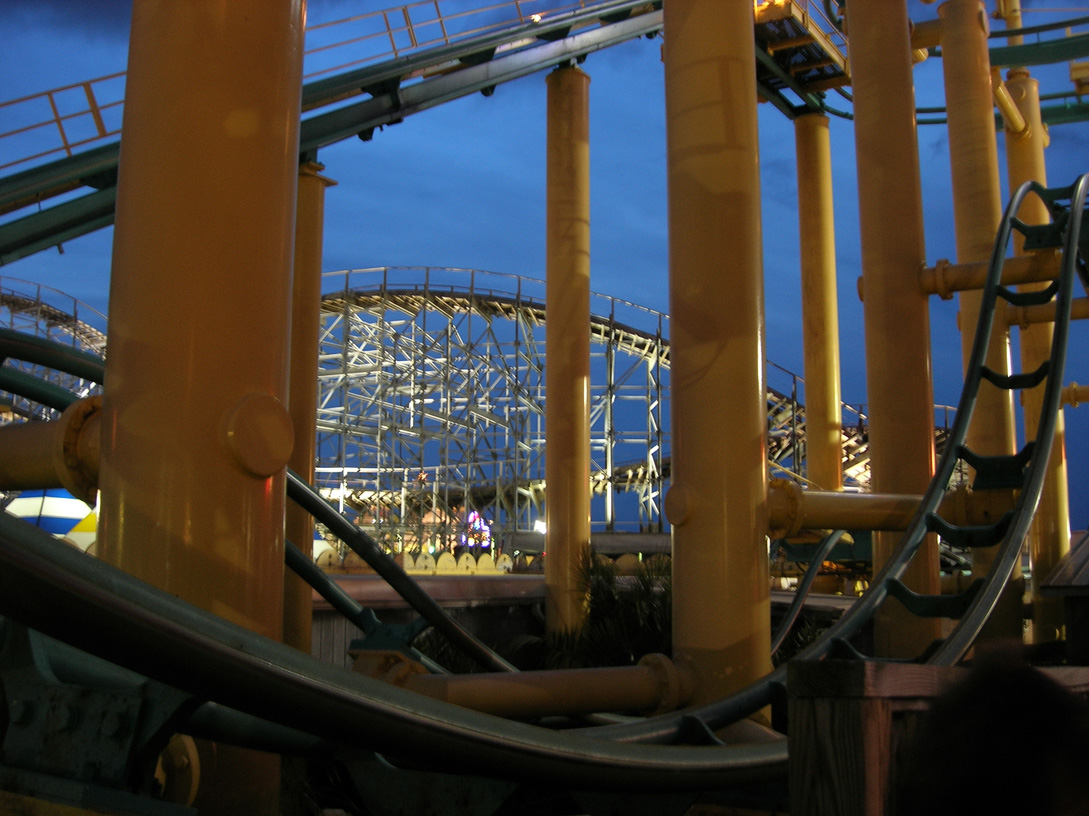 Mad Mouse at the Myrtle Beach Pavilion in Myrtle Beach, SC. Photo by Ryan Painter